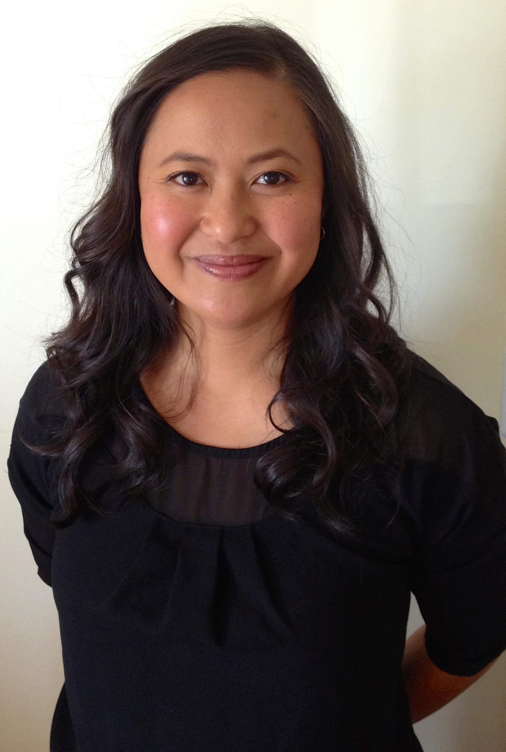 Photo of Marissa Aroy